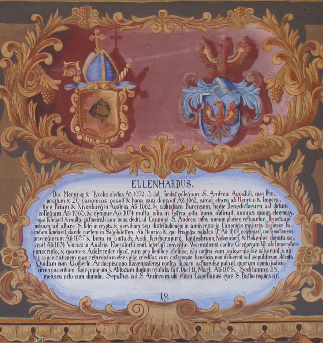 Wappentafel von Ellenhard, Bischof von Freising, im Fürstengang zwischen Fürstbischöflicher Residenz und Freisinger Dom. Links das geistliche, rechts das persönliche Wappen, darunter ein lateinischer Text mit kurzer Biographie.